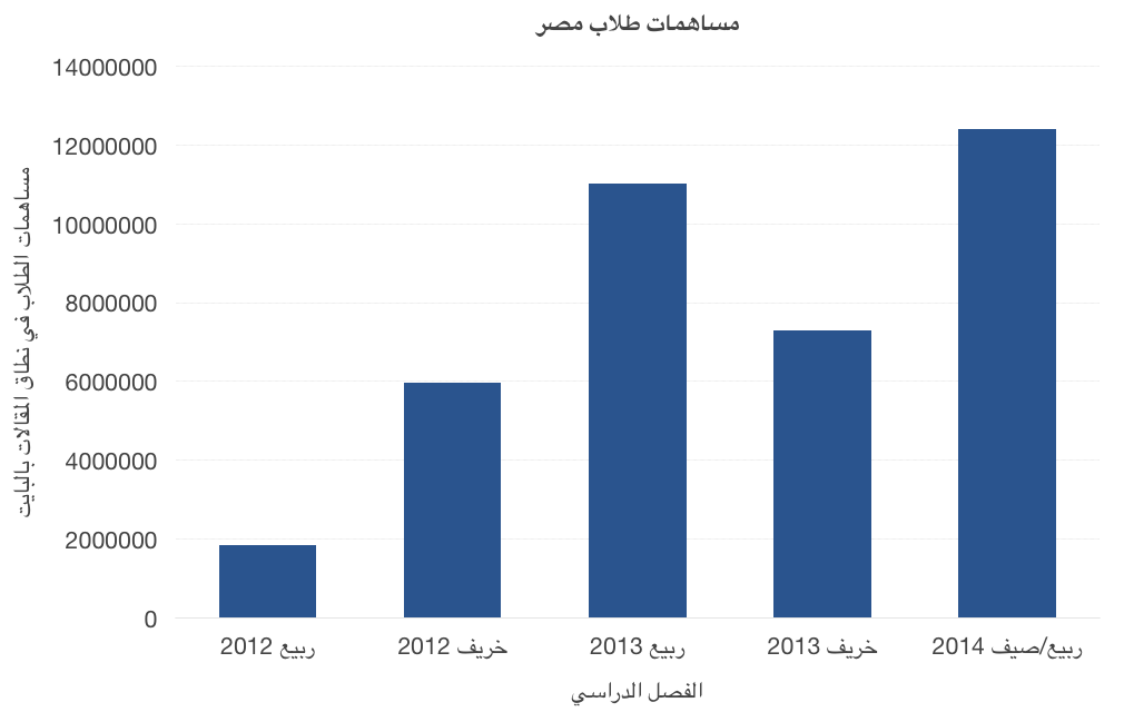 A chart about the bytes added by Egypt Education Program students through the 5th edition ending in September 30, 2014